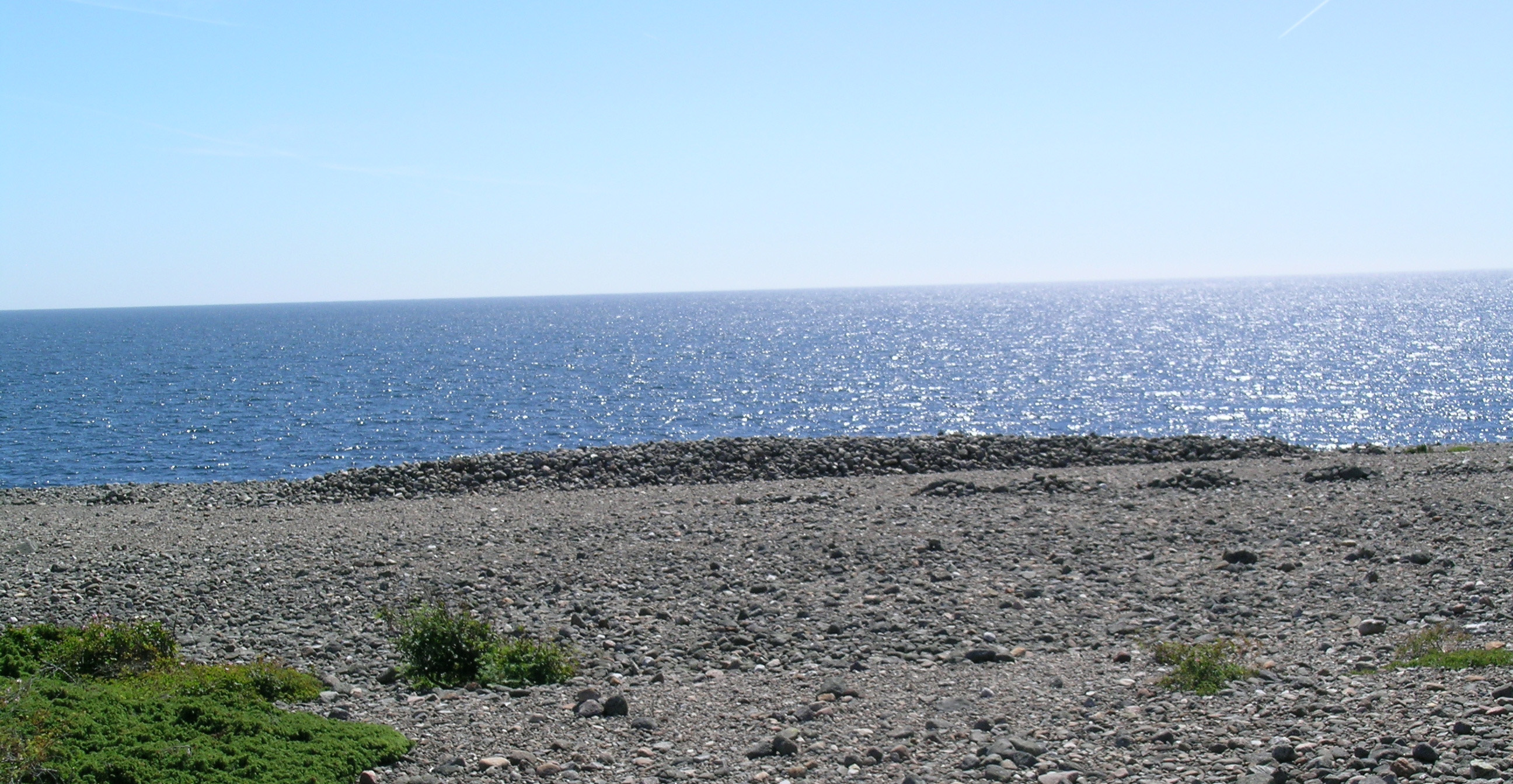 Bronze age burial mound, Mølen, Larvik, Norway.